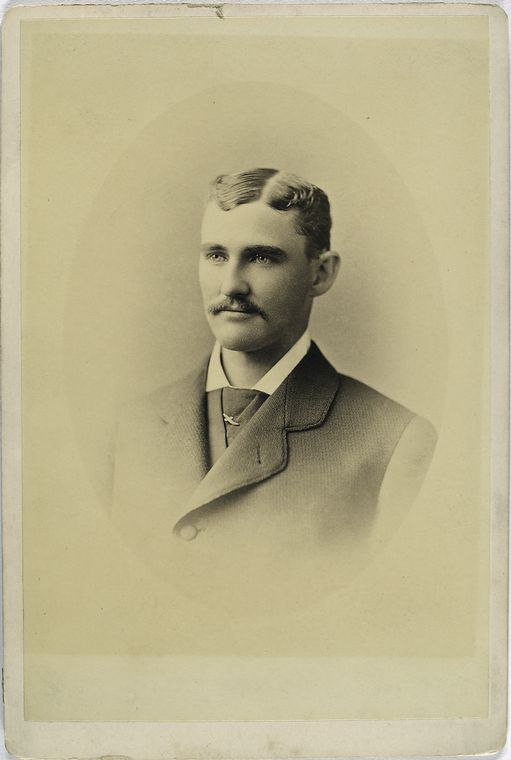 Pop Snyder during his time with the Boston Red Caps.